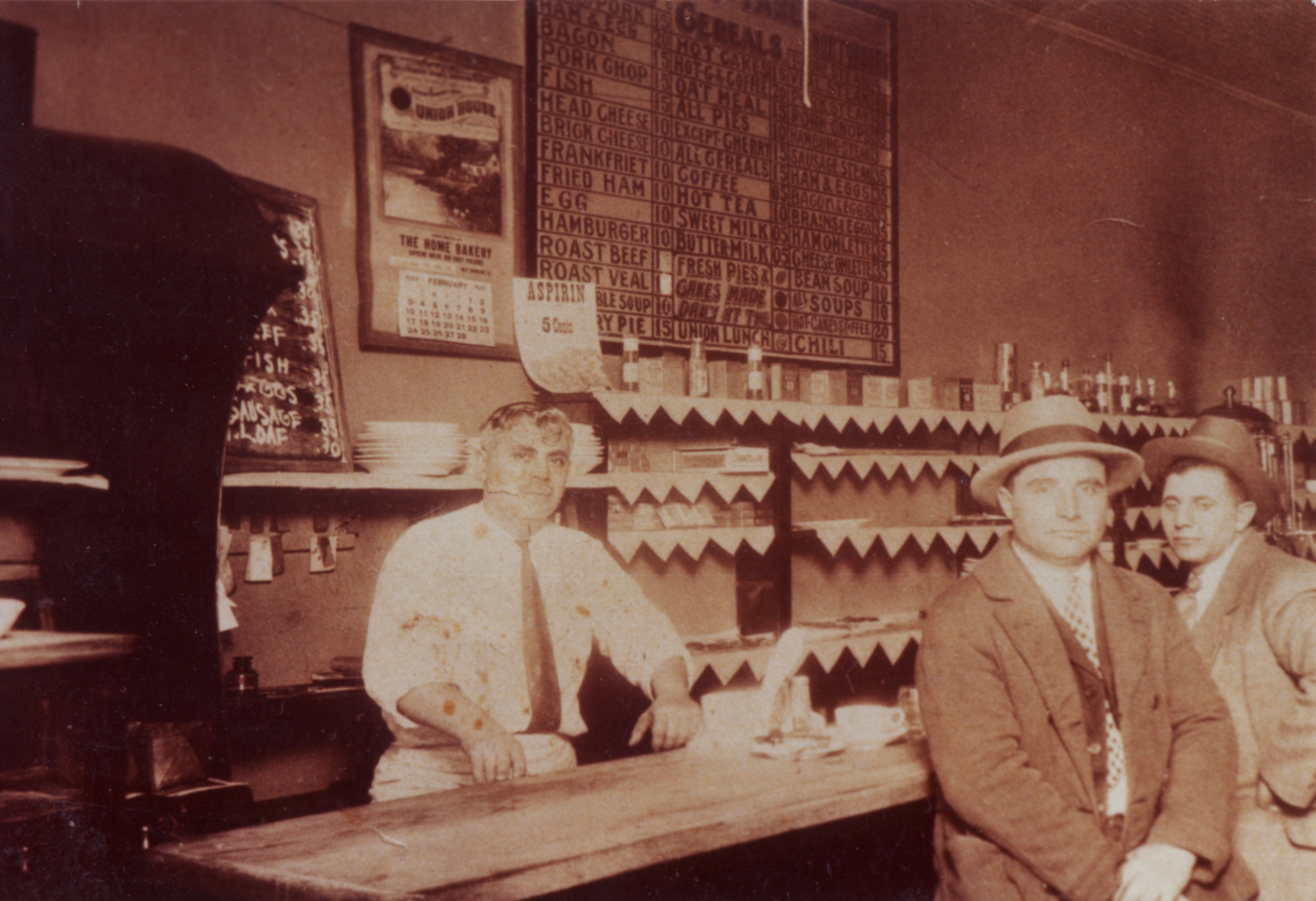 Inside of a diner in West Frankfort, Illinois. The man behind the counter is its proprietor, Gus Vardas.